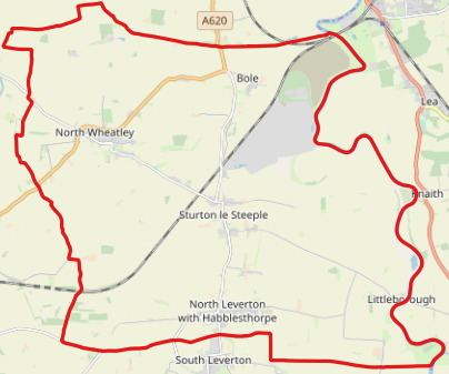 Map of the Sturton ward of Bassetlaw. This map may be incomplete, and may contain errors. Don't rely solely on it for navigation.